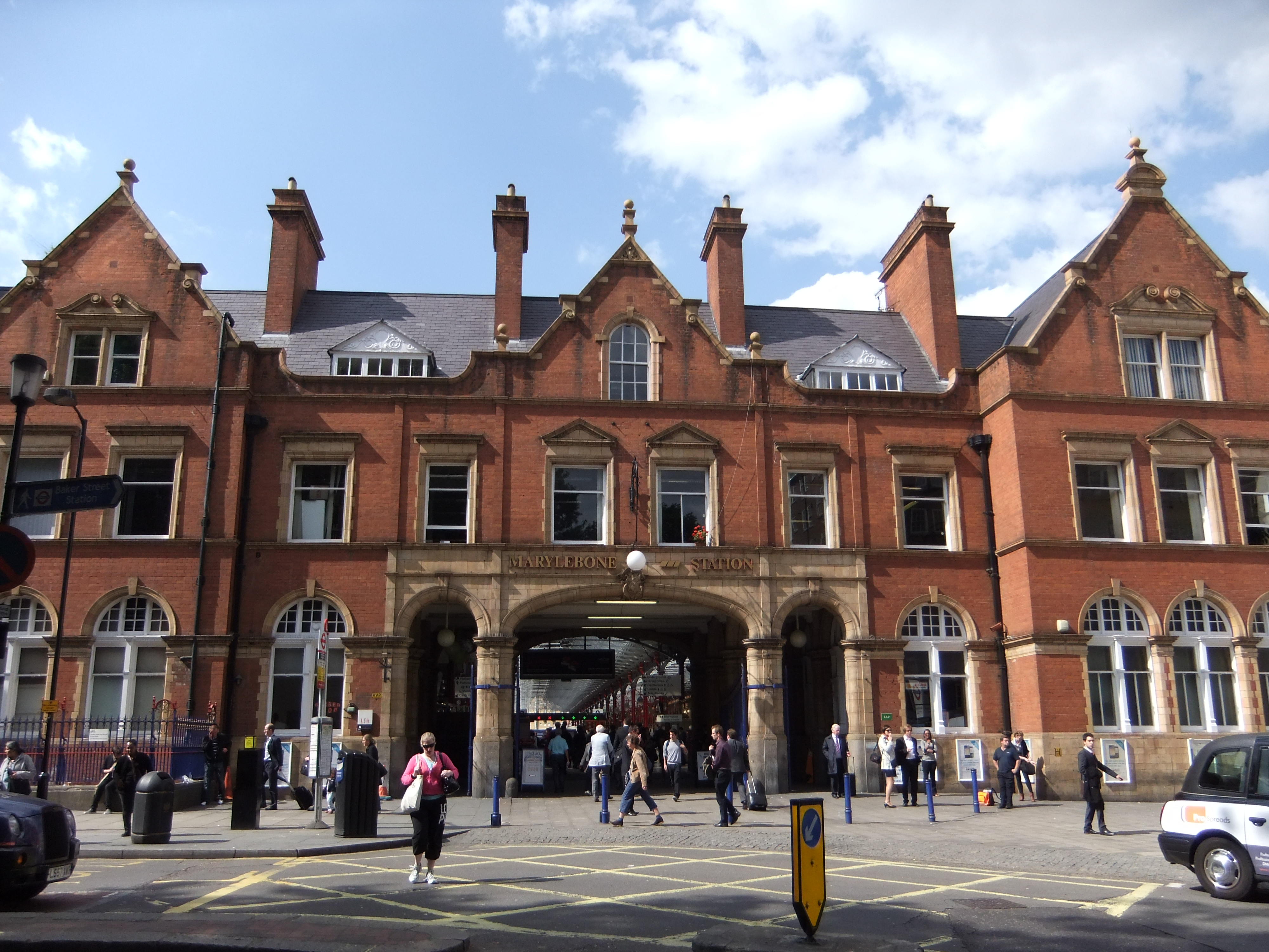 Frontage of Marylebone station, London.